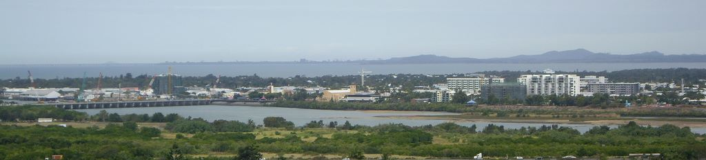 Mackay's growing CBD